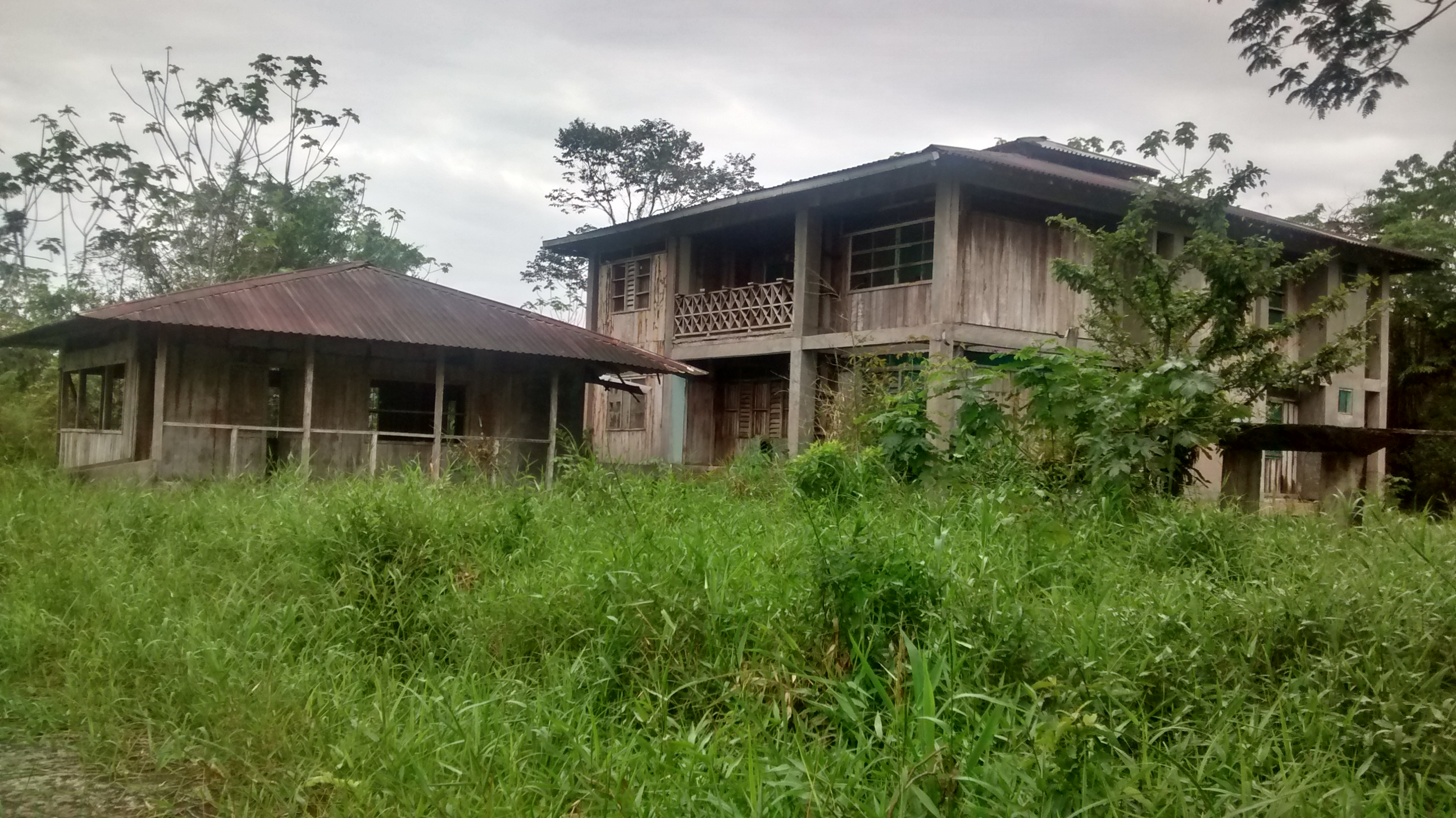 Casa de la Hermanas Agustinas, here about 100 people were taking refuge during the 2002 massacre.